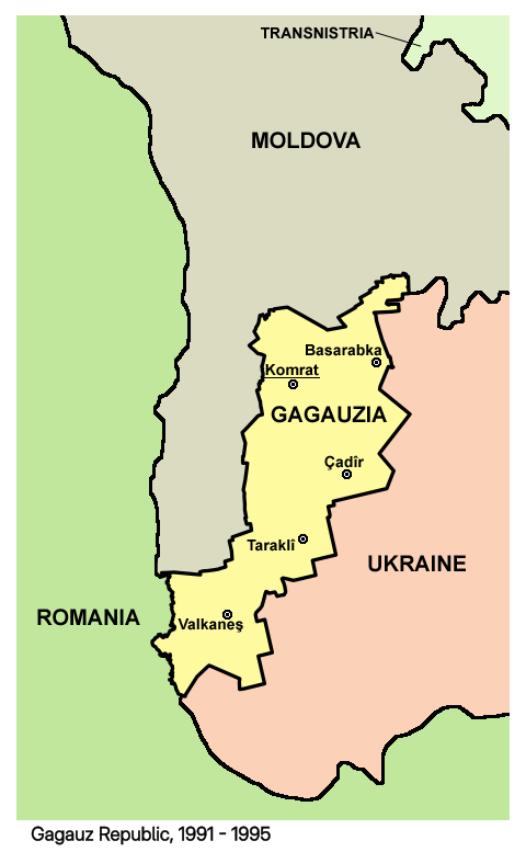 Map of the Republic of Gagauzia, 1990-1994.